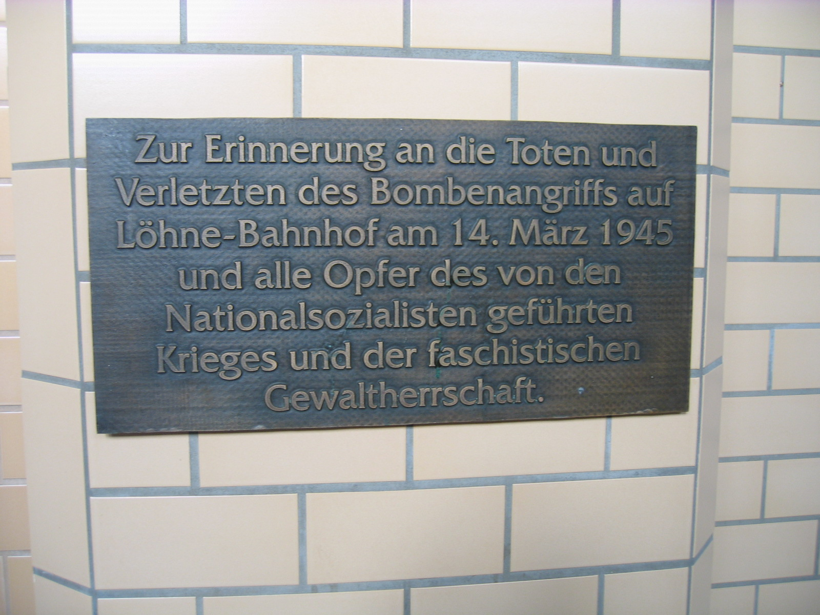 Train station in Löhne, District of Herford, North Rhine-Westphalia, Germany.